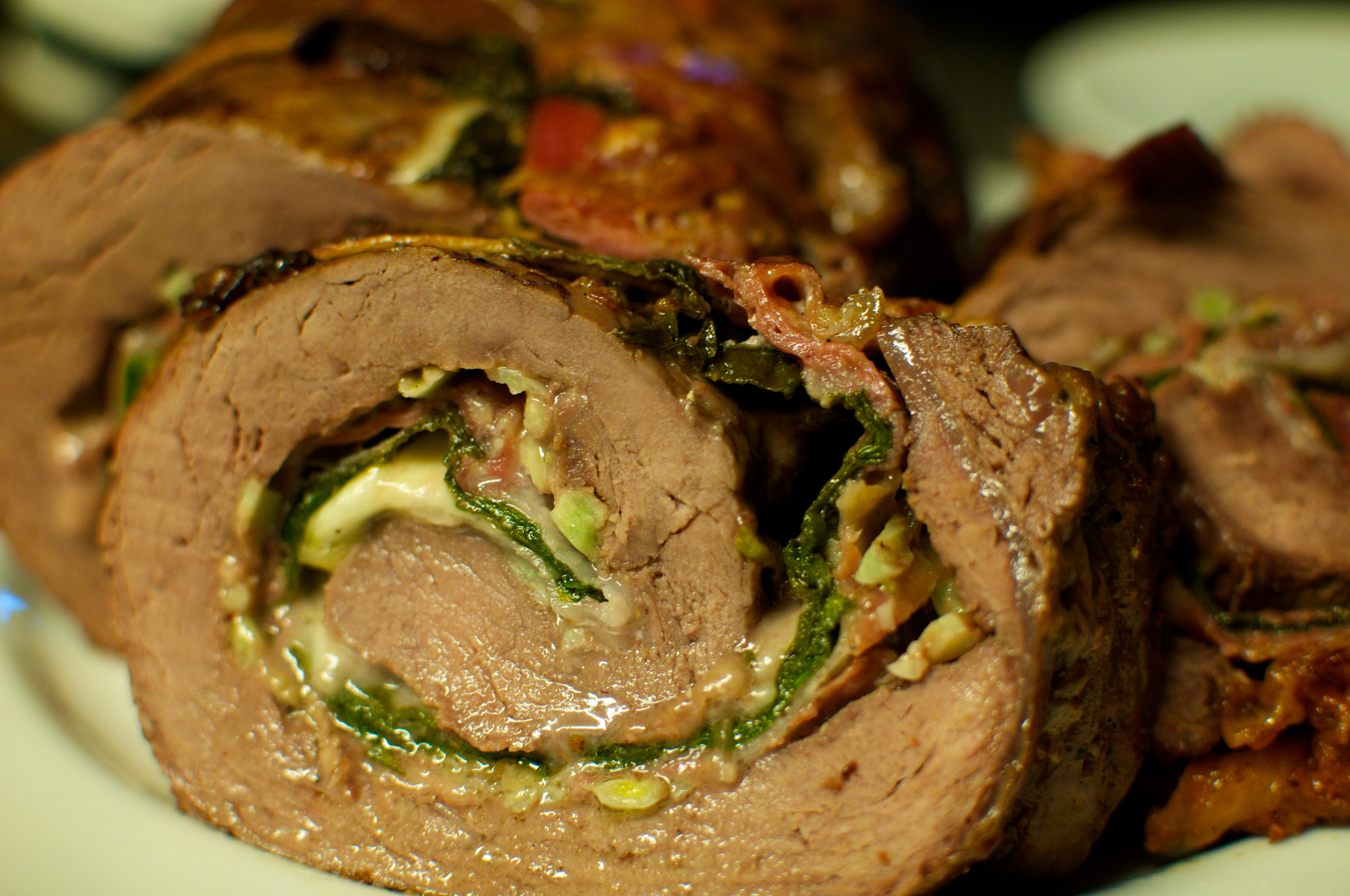 Flank roulade with prosciutto, provolone, spinach, and garlic stuffing sliced and ready for serving.